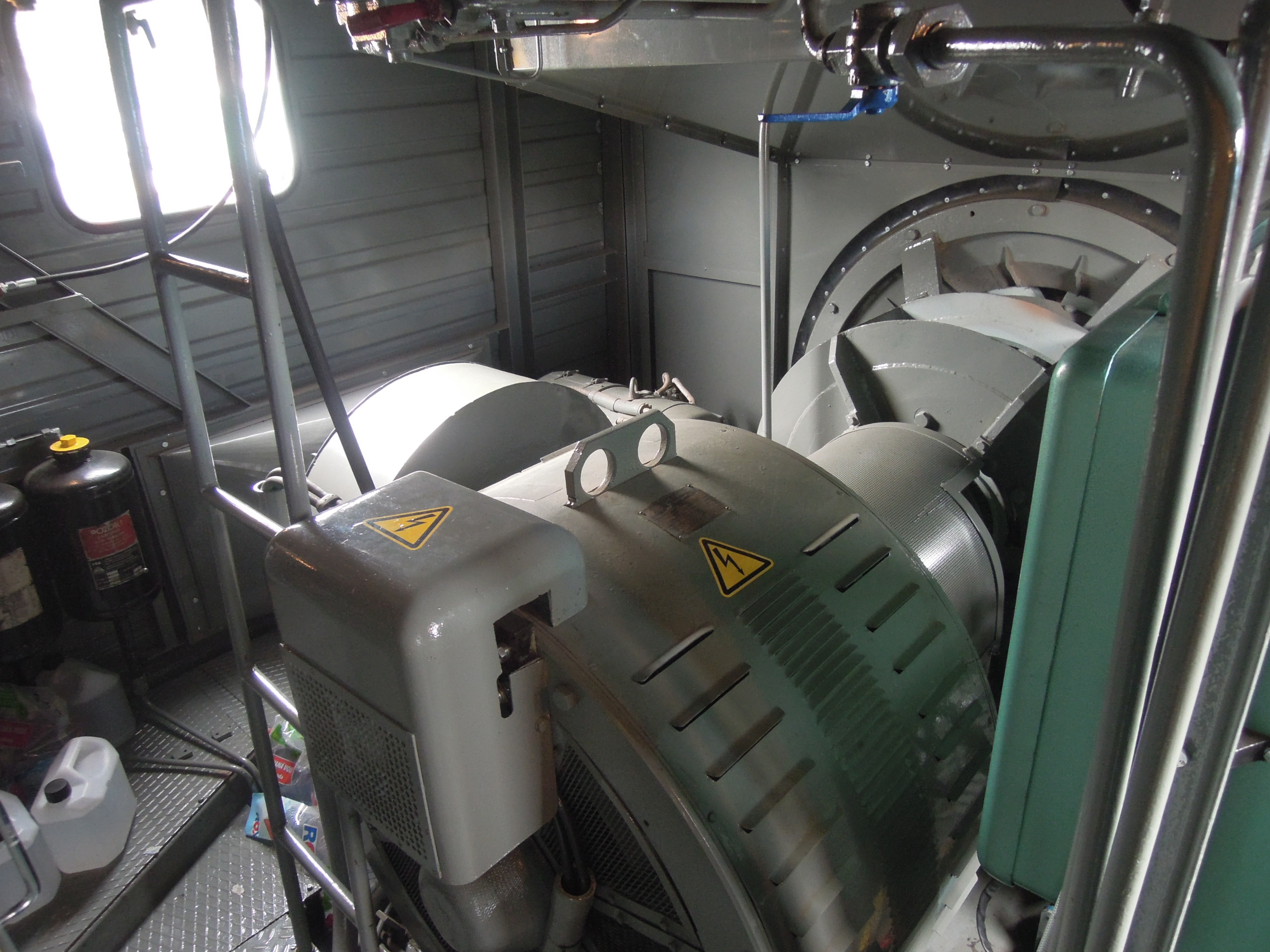 Diesel locomotive class 759 of České dráhy at the Czech Raildays 2015 trade fair in Ostrava, Czech Republic